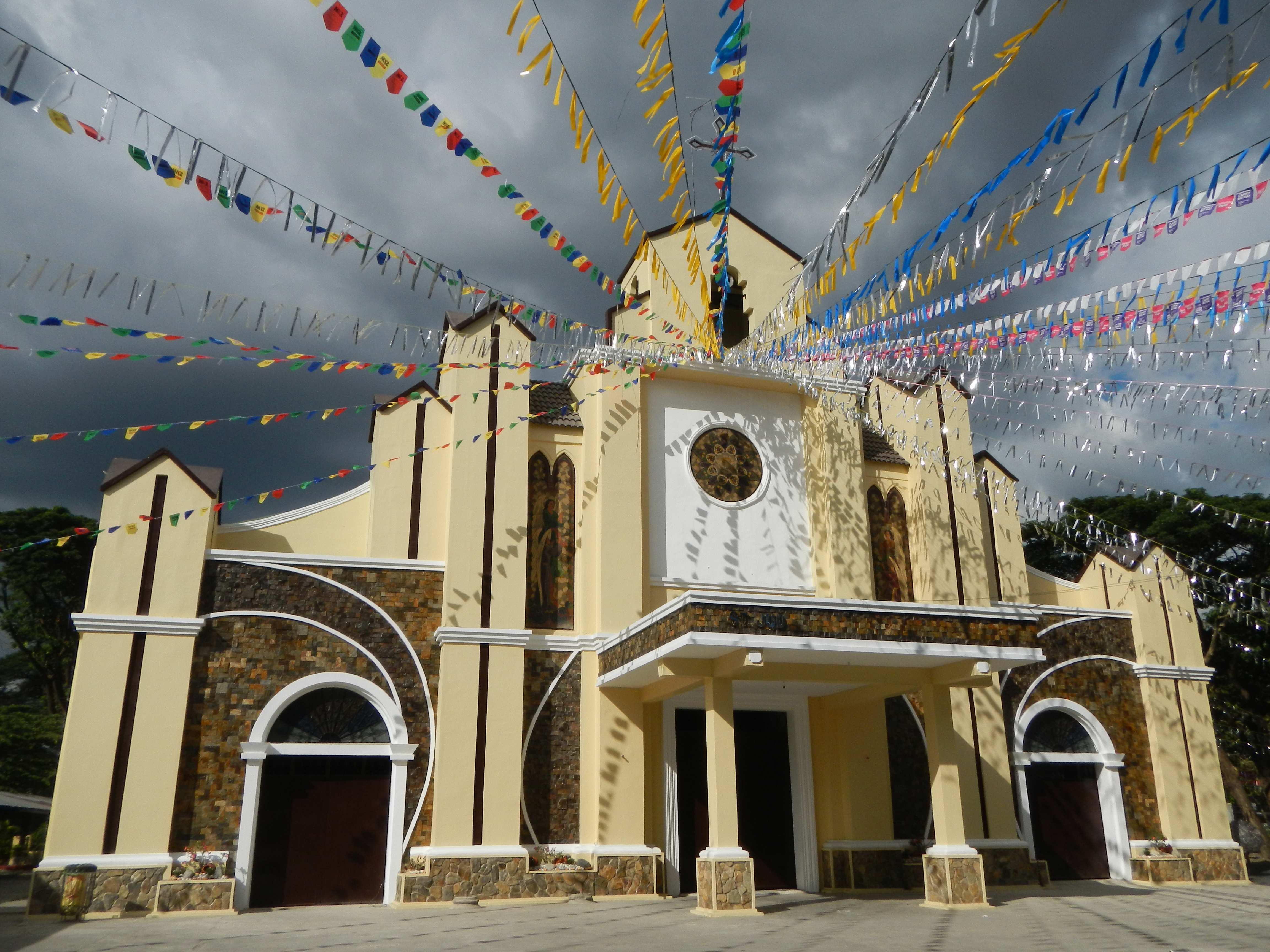 St. Jude Thaddeus Parish Church, Pozorrubio, Pangasinan[1] Roman Catholic Archdiocese of Lingayen-Dagupan